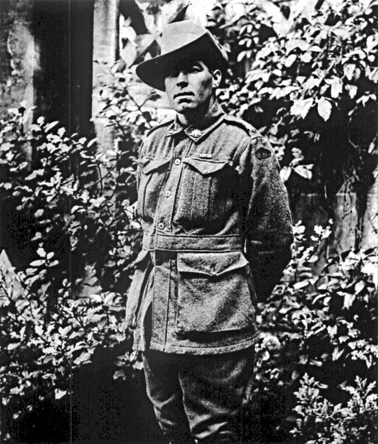 Portrait of Australian Victoria Cross recipient, Private John Carroll, 33rd Battalion AIF, taken 21 August 1918 in London. Carroll was awarded the VC for his actions during the Battle of Messines, June 1917.